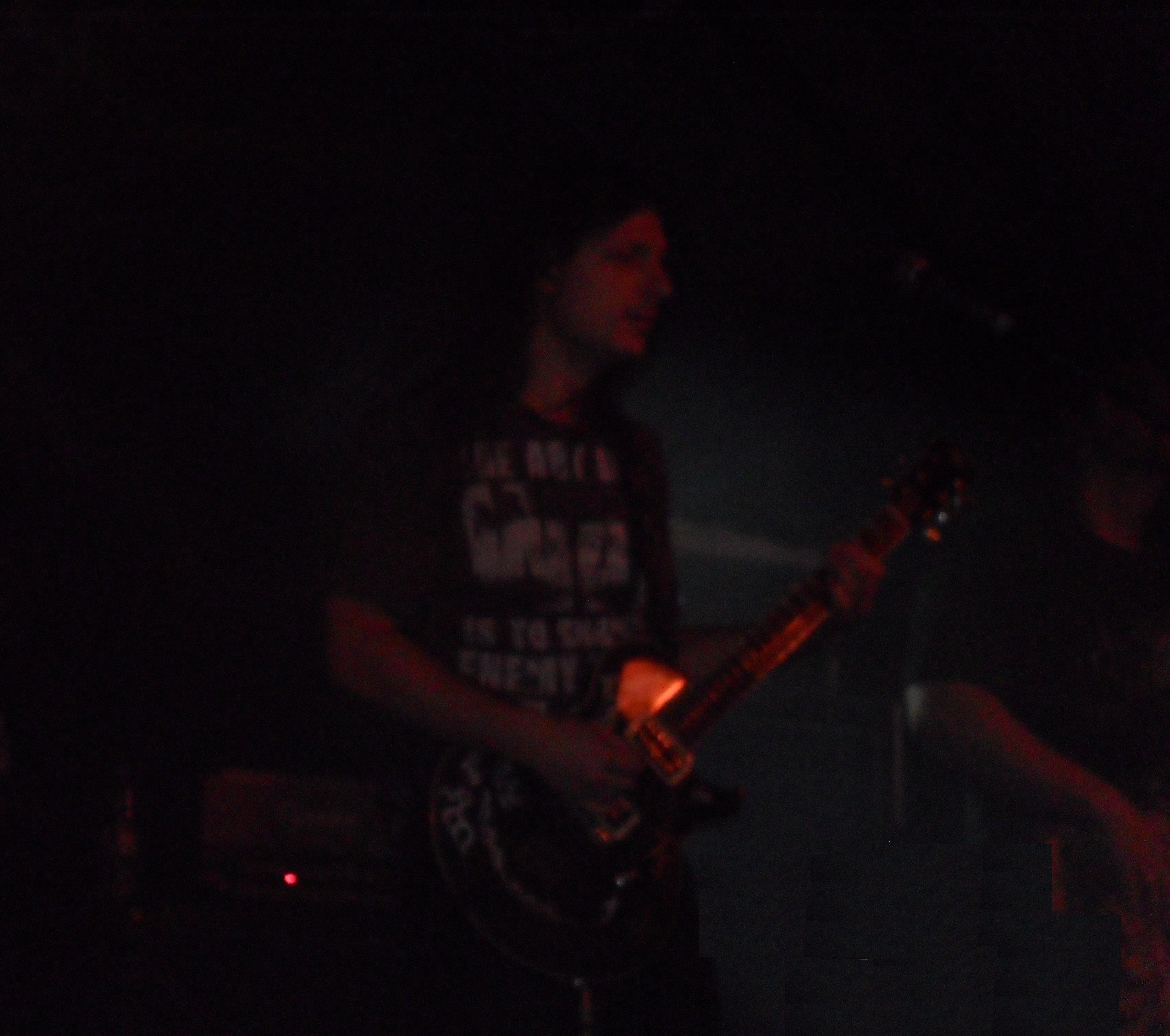 Rafael Bittencourt Live in Fortaleza